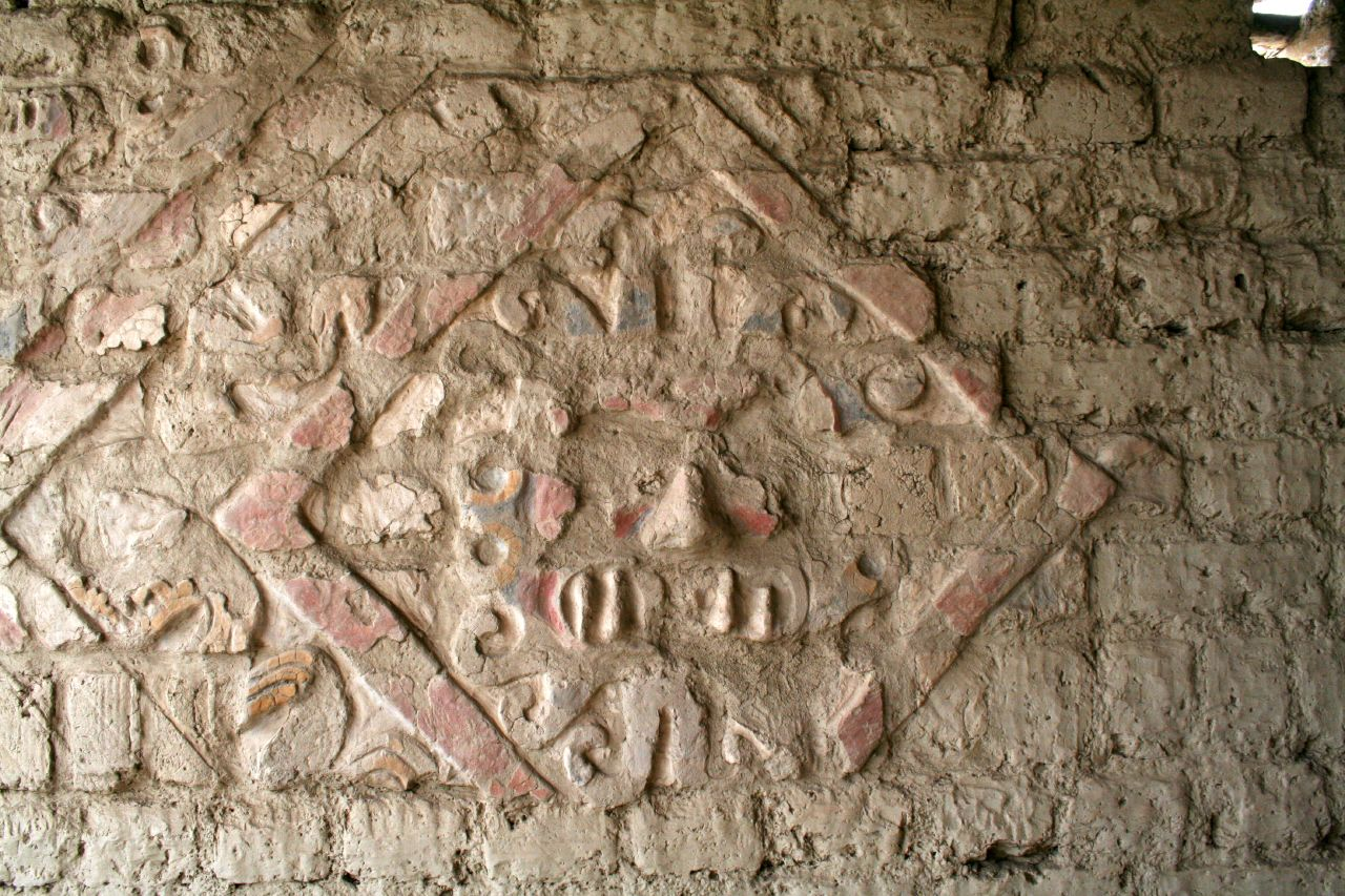 Huaca Cao Viejo - Ai Apaec, main deity of the Moche culture.